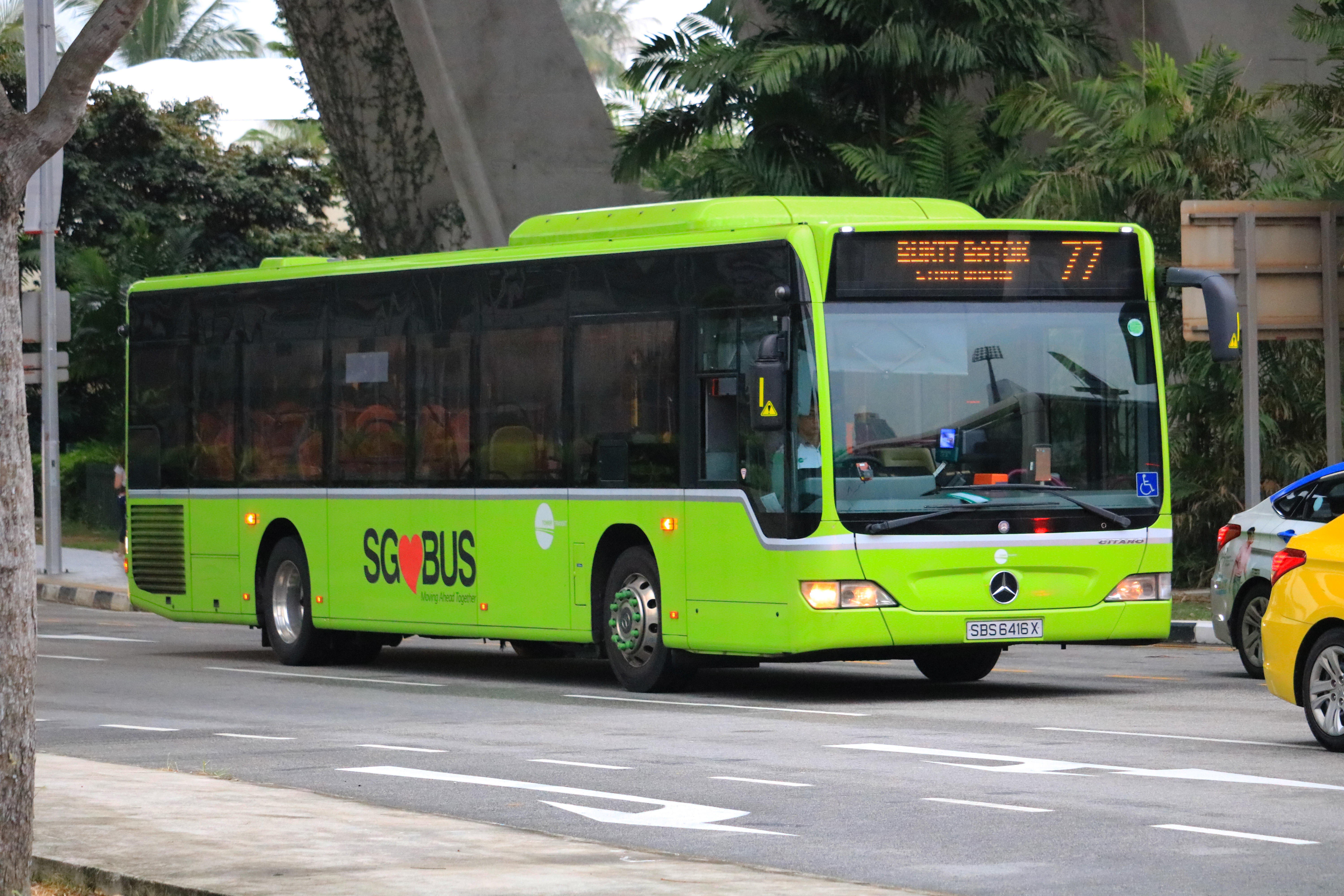 Mercedes-Benz Citaro SBS6416X